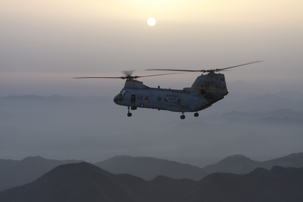 From : "A U.S. Marine Corps CH-46 Sea Knight helicopter from the 15th Marine Expeditionary Unit flies over the mountains of Kohistan, en route to Ghazi Aviation Base, Pakistan, after a day of humanitarian relief efforts in Khyber-Pakhtunkhwa province, Pakistan."